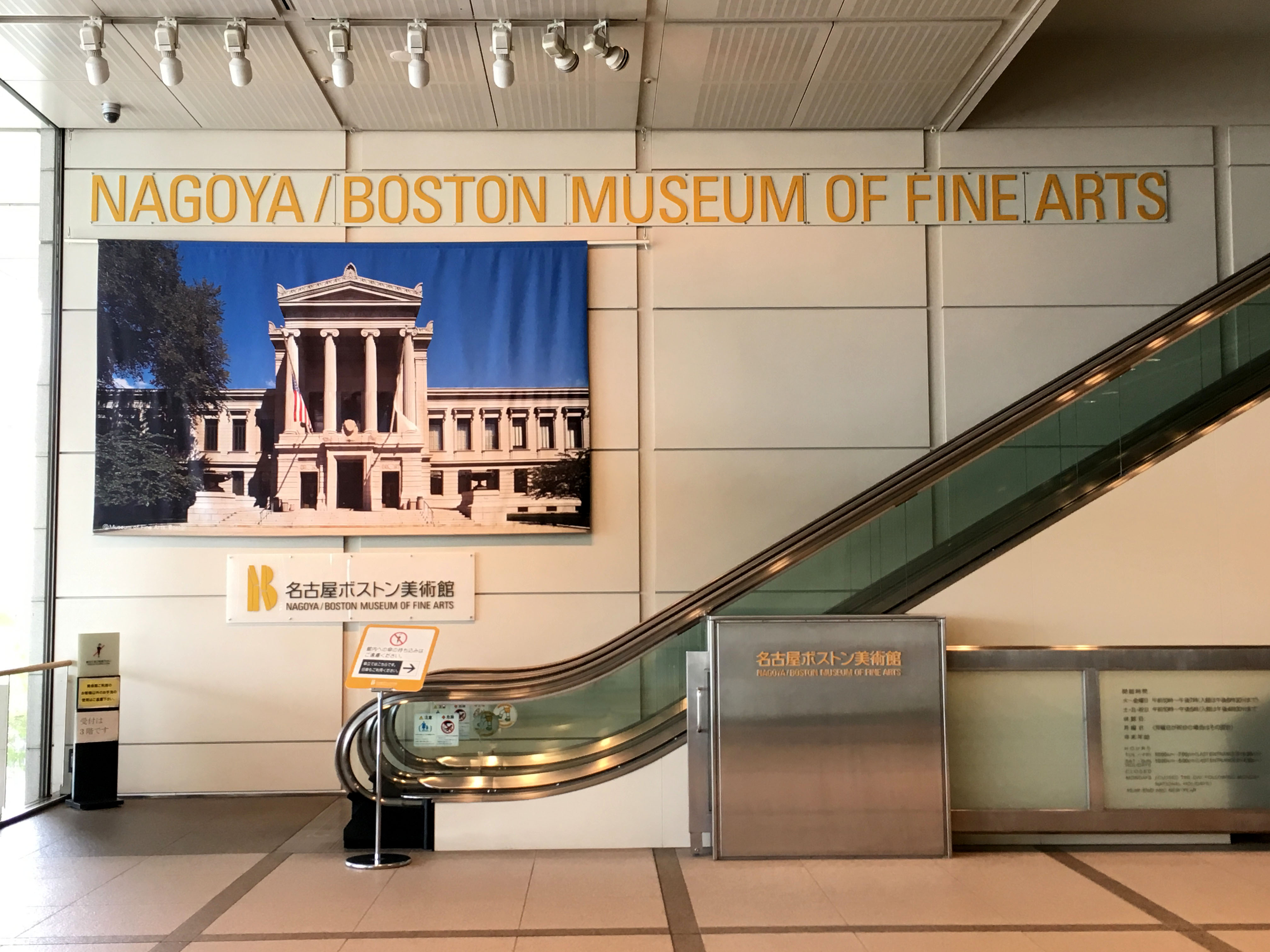 Entrance of Nagoya/Boston Museum of Fine Arts (Nagoya, Japan)